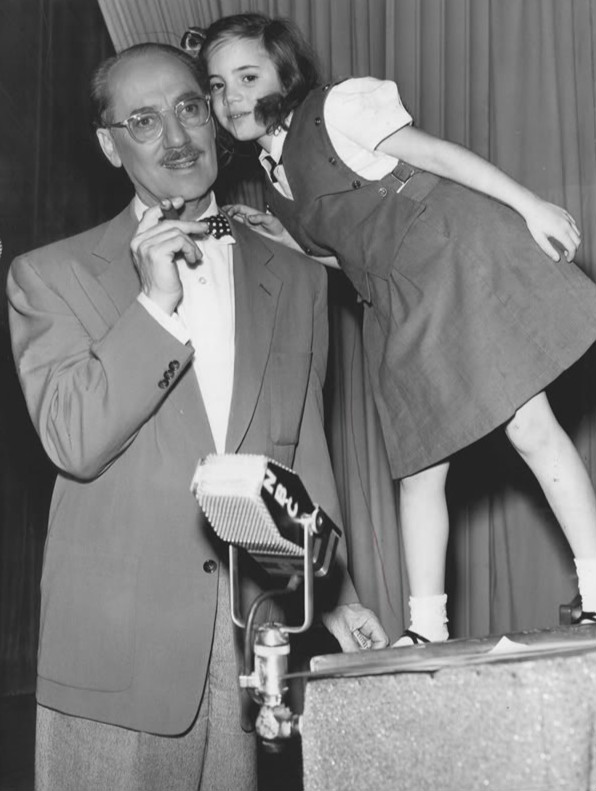 Photo of Groucho Marx with his daughter, Melinda, in the studio of You Bet Your Life.